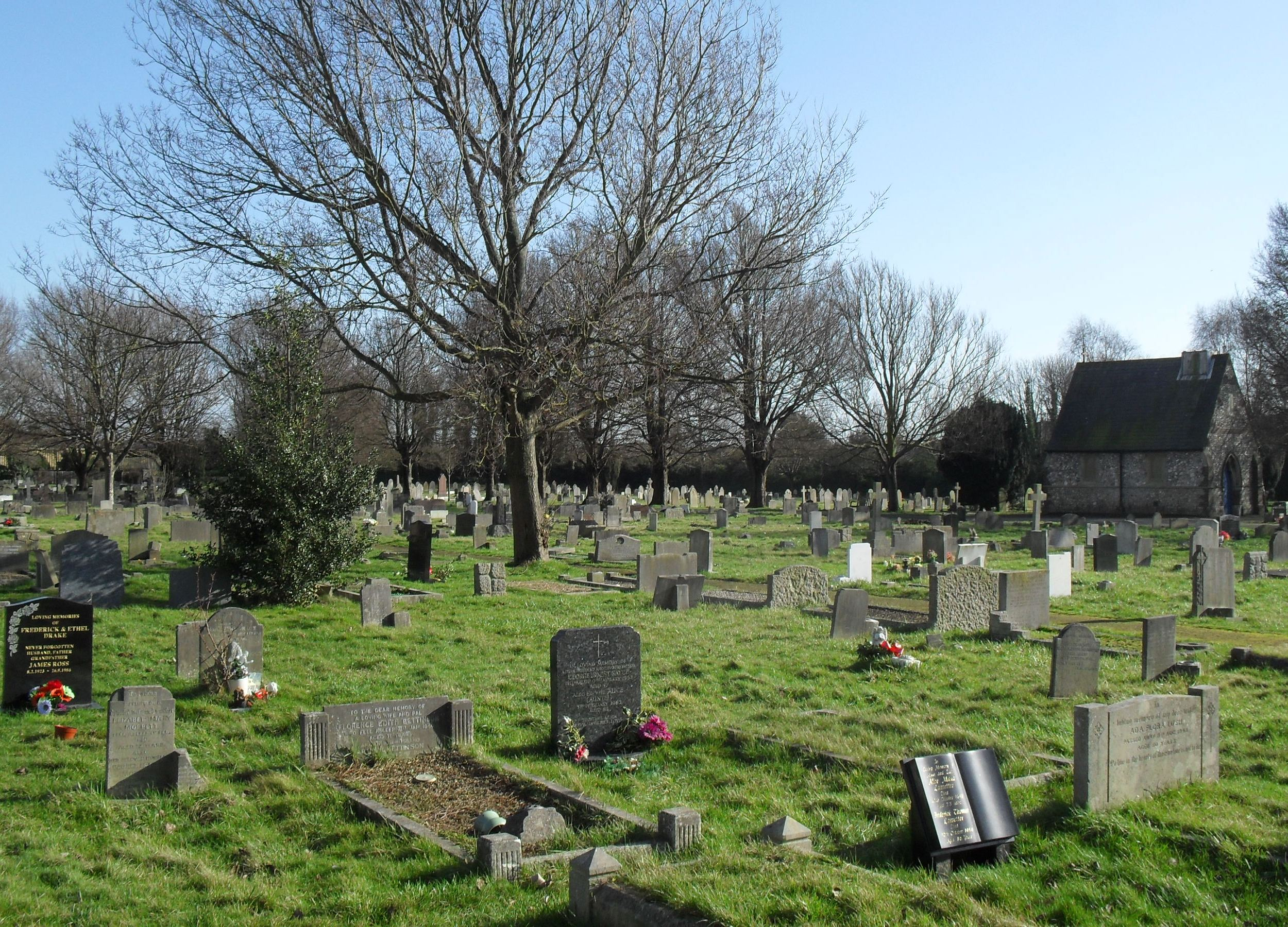 General view across Portslade Cemetery, Victoria Road, Portslade, City of Brighton and Hove, England. The cemetery opened in 1872 and has two chapels.